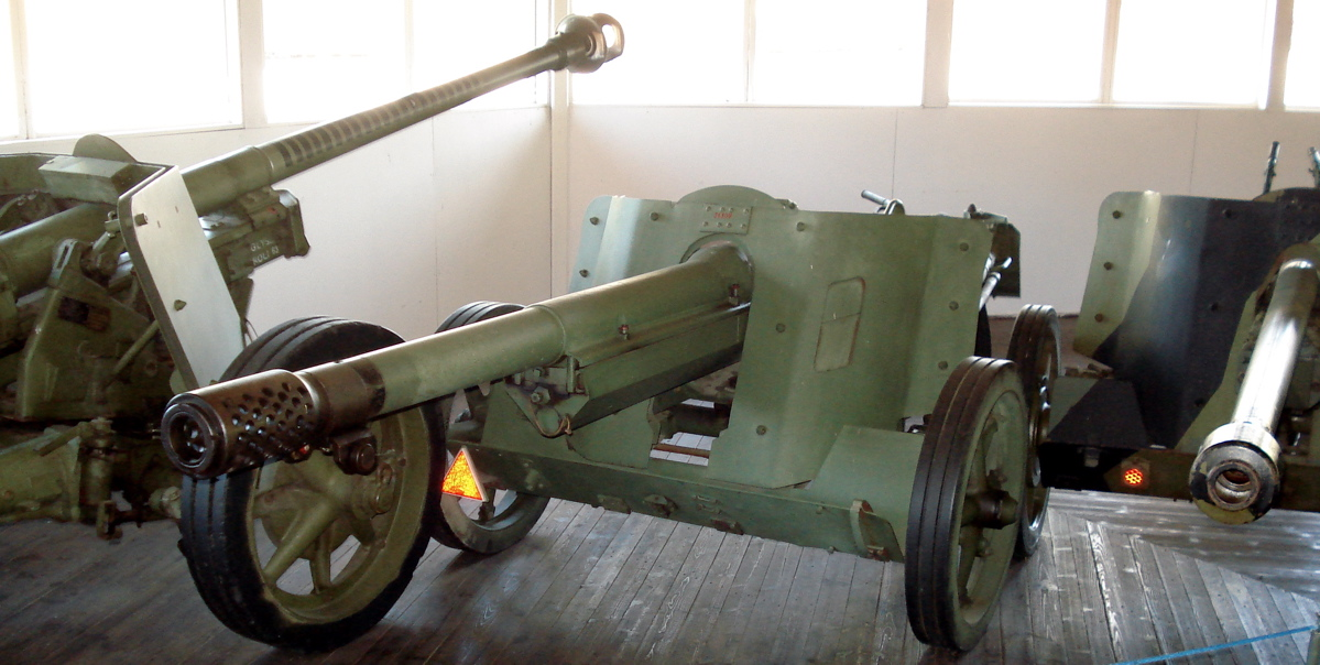 French 75 mm M1897 gun mounted on carriage from the 50 mm M1938 anti-tank gun, displayed in Hämeenlinna Artillery Museum. This combination anti-tank gun was produced by Germany during World War II as an emergency measure to counter Russian T-34 and KV tanks on the Eastern Front. In this photo, a 75 mm PaK 40 gun is visible to the left, and a 50 mm PaK 38 gun to the right. Displayed in Finnish Tank Museum (Panssarimuseo) in Parola. Photo taken on July 14, 2006. Source: Photo by me, User:Balcer.